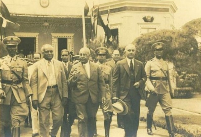 Photograph taken on the occasion of one of the two 1933 border meetings (at Ouanaminthe, Haiti, and Dajabon, Dominican Republic) between presidents Sténio Vincent (center) and Rafael Trujillo (right, holding hat) to iron out points that had not been settled by the Vasquez-Borno border treaty of 1929. A final treaty was signed in March 1936 but it did not prevent the infamous Haitian Massacre (sometimes called Parsley Massacre in the U.S.) in September 1937. The second man from the left is Élie Lescot, then Haitian ambassador to the Dominican Republic, and later to the United States, who (actively supported by Trujillo) engineered the overthrow of Vincent in 1941 and took over as president of Haiti.